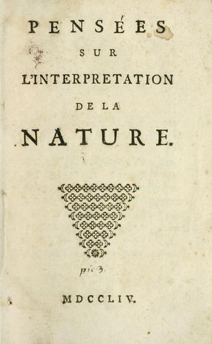 Title page of Pensées sur l'interpretation de la nature. Published 1754 in Amsterdam